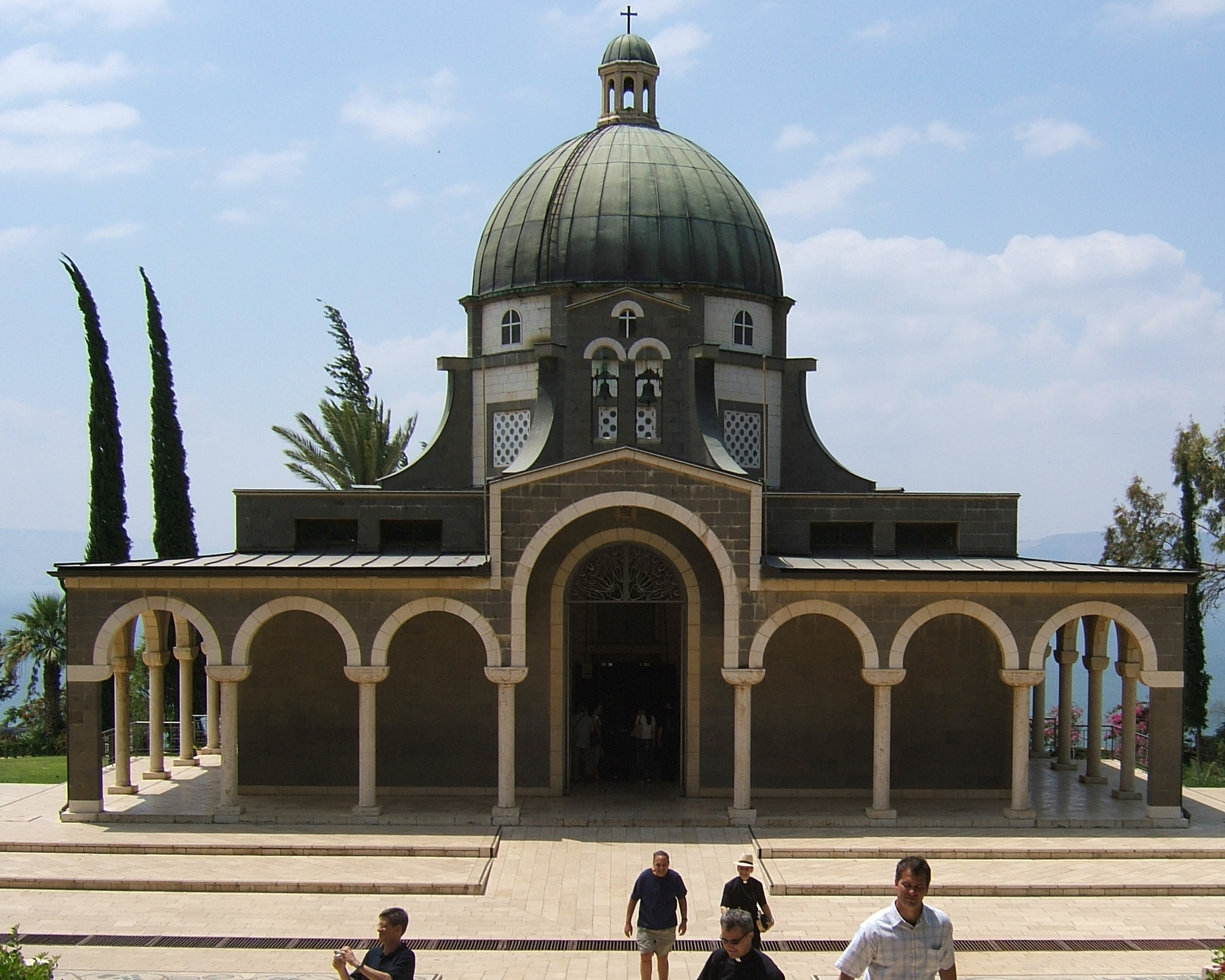 Photo of the Church of the Beatitudes by Antonio Barluzzi on the northern coast of the Sea of Galilee in Israel. The traditional spot where Jesus gave the Sermon on the Mount. Taken in Israel 2005 by myself (Bantosh).